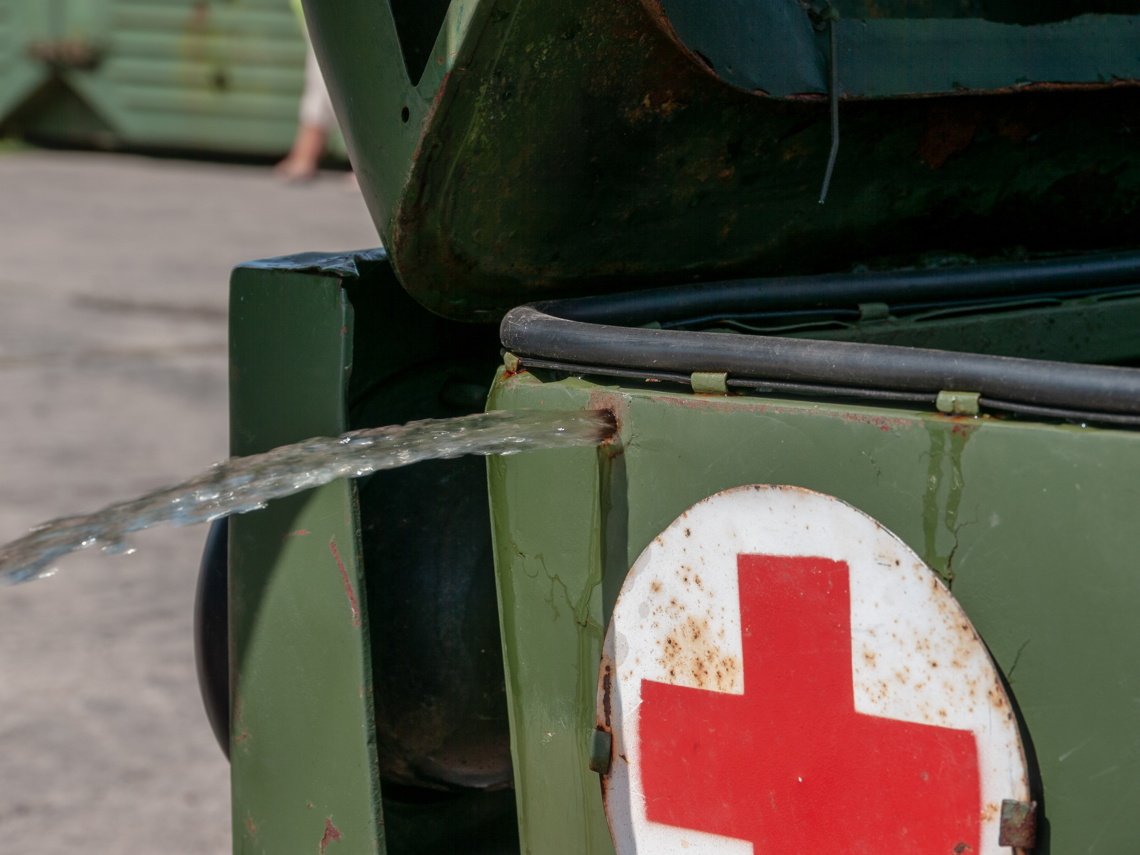 Bilge pump of a LuAZ-967 in action